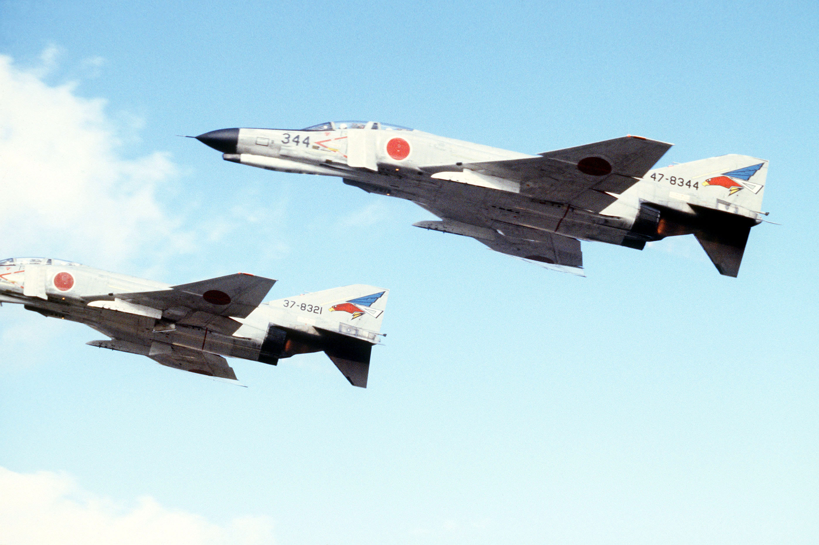 MISAWA AIR BASE - A ground-to-air left underside view of two Mitsubishi-built F-4EJ (344 & 321) of 302 Sqn in formation during joint US Air Force and JASDF Exercise Cope North. (U.S. Air Force photo by Technical Sgt. Mike Daniels) ↑ 1978年11月27日～12月1日に三沢基地で行われた。cf. Cope North continues